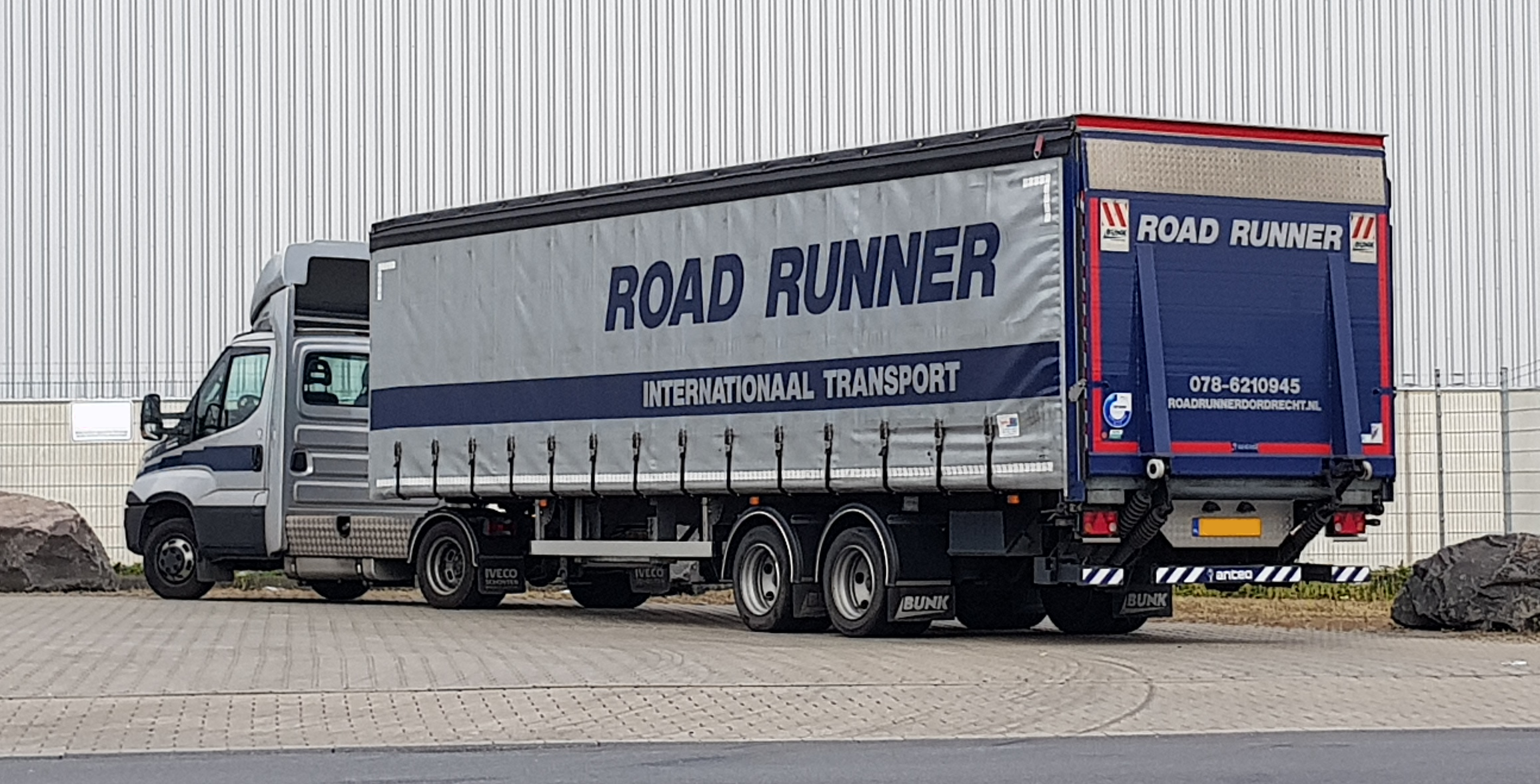 Picture of a semi-trailer with side-curtain for vans, as used in Europe.